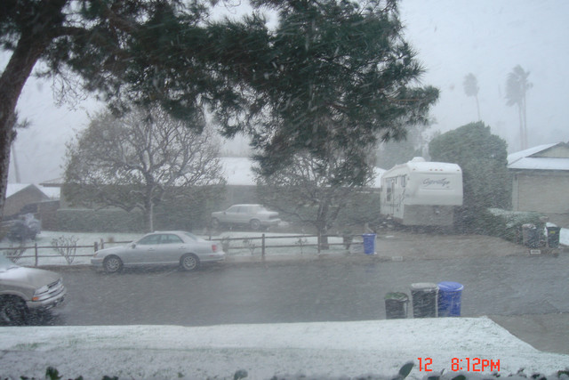 Blizzard in San Bernardino